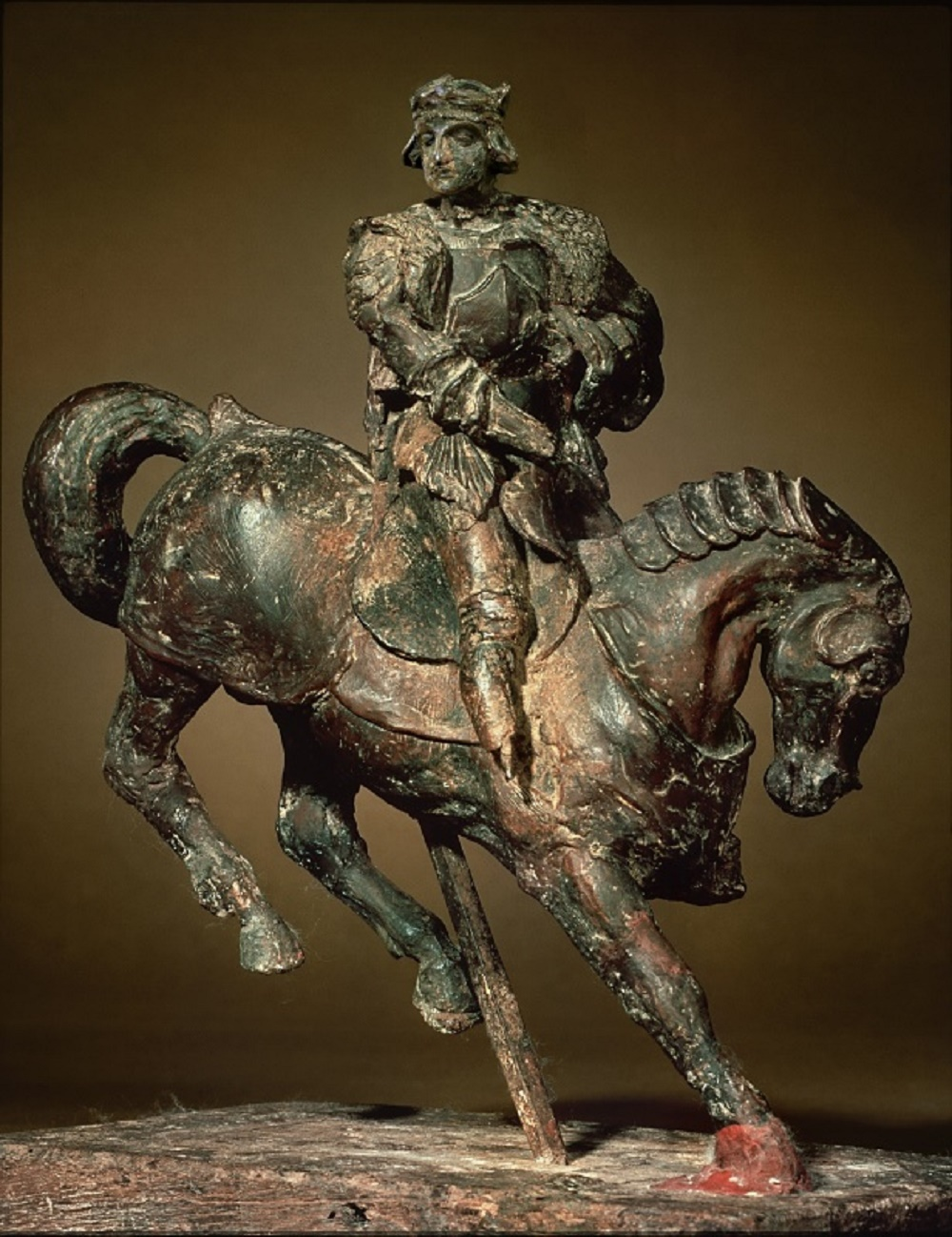 Beeswax statuette of a horse and rider attributed to Leonardo Da Vinci.